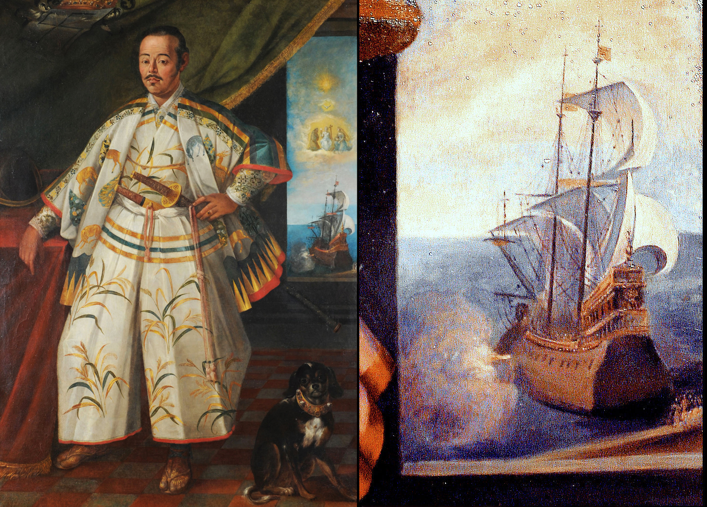 Painting of Hasekura TsunenagaRight: personal photograph of the ship detail of the painting.